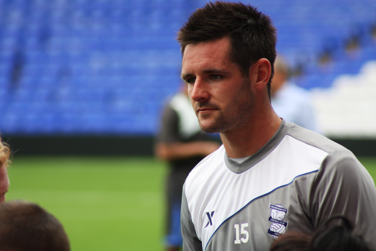 Scott Dannn at Birmingham City open training session at St.Andrews' Stadium.